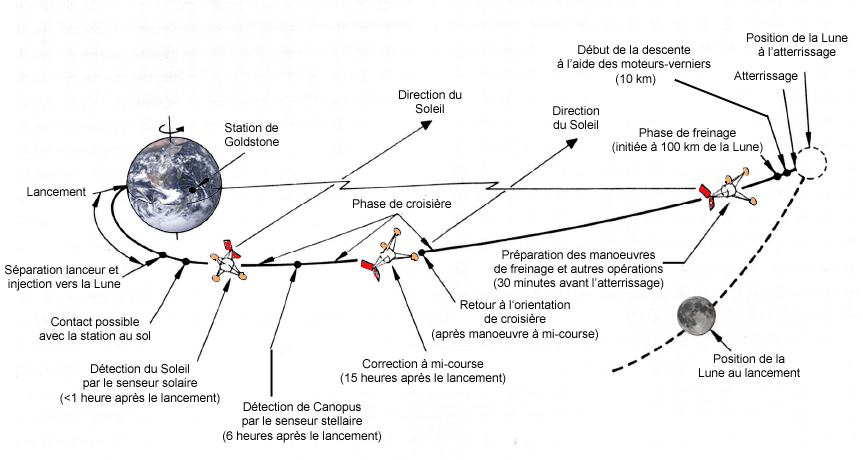 Surveyor I spacecraft : Earth-Moon trajectory and nominal events (french legend)